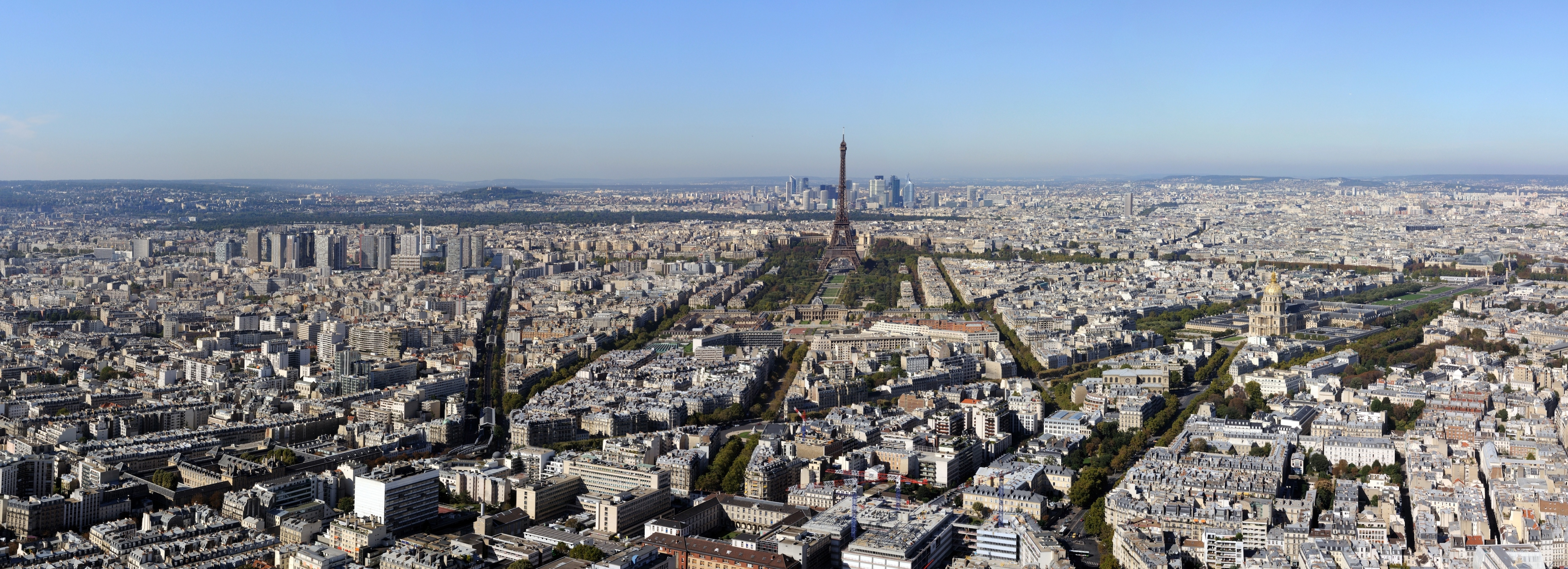 Paris